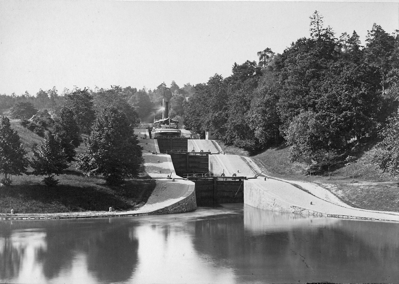 The new lock line in Trollhättae Kanal, Sweden in the 1880s. Photo: Robert Dahllöf.